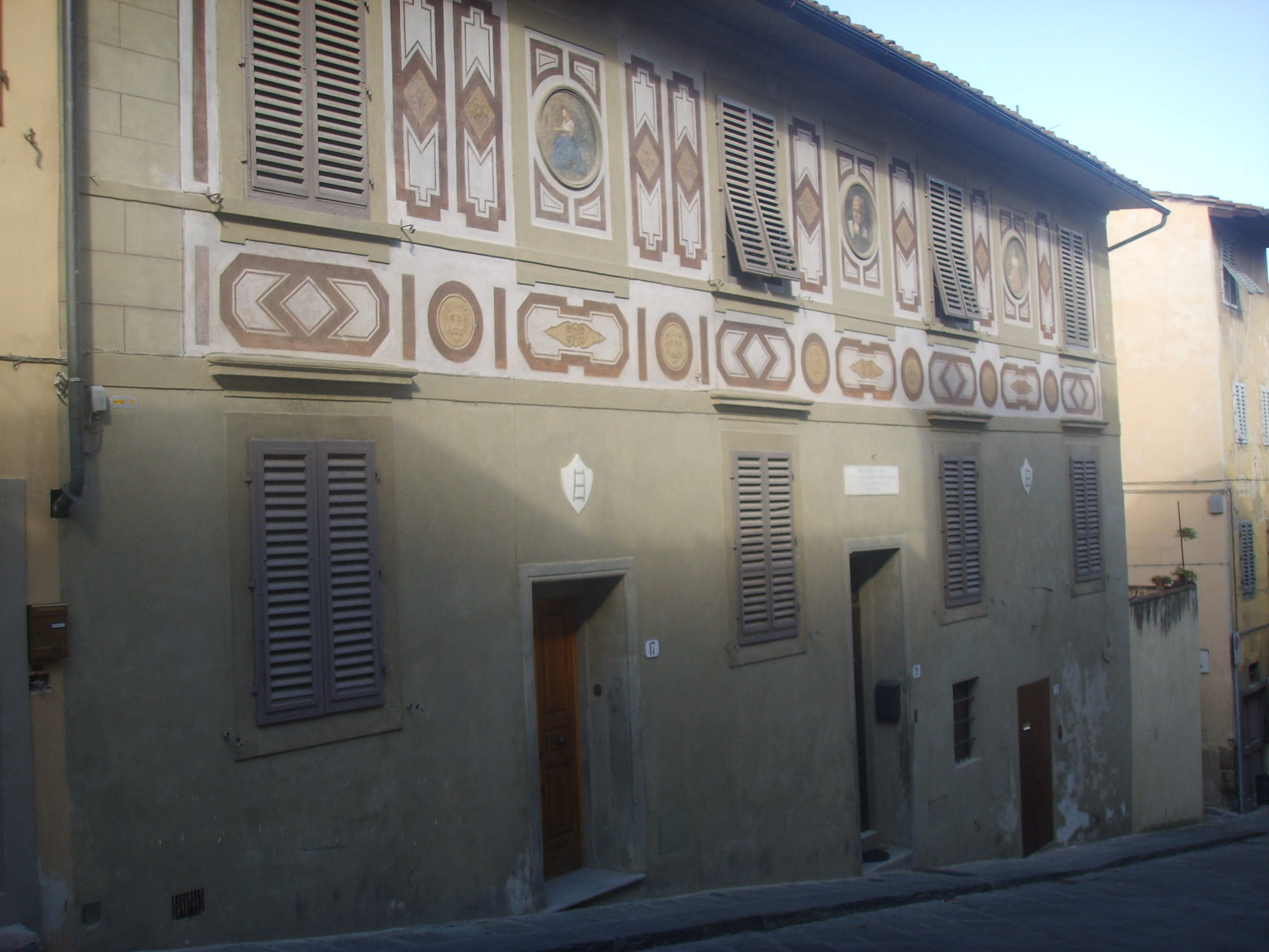 Galileo's church at the Costa San Giorgio in Florence, Italy tonterrii gilipollassss